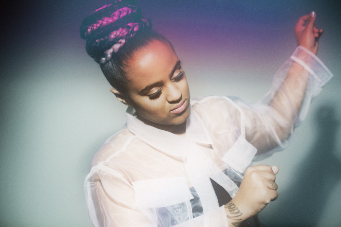 Swedish musician Sweinabo Sey in 2014.